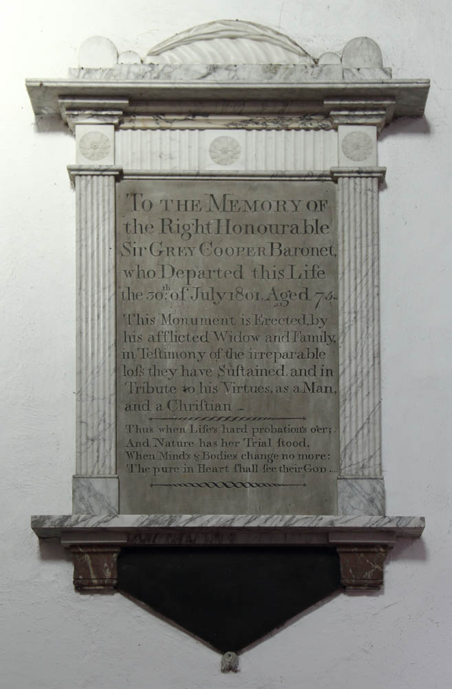 Monument to Grey Cooper, self-styled baronet, in All Saints' parish church, Worlington, Suffolk